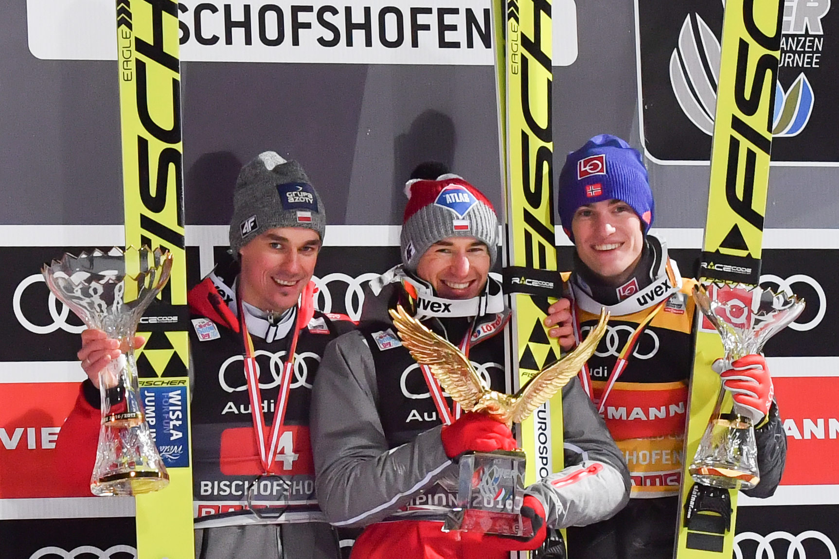 FIS Ski Jumping World Cup, Four Hills Tournament, Bischofshofen 2017. Image shows Piotr Żyła (POL), Kamil Stoch (POL) and Daniel-André Tande (NOR) at the award ceremony.